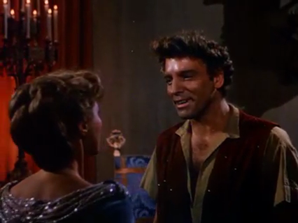 Burt Lancaster and Virginia Mayo in The Flame and the Arrow (1950) directed by Jacques Tourneur.